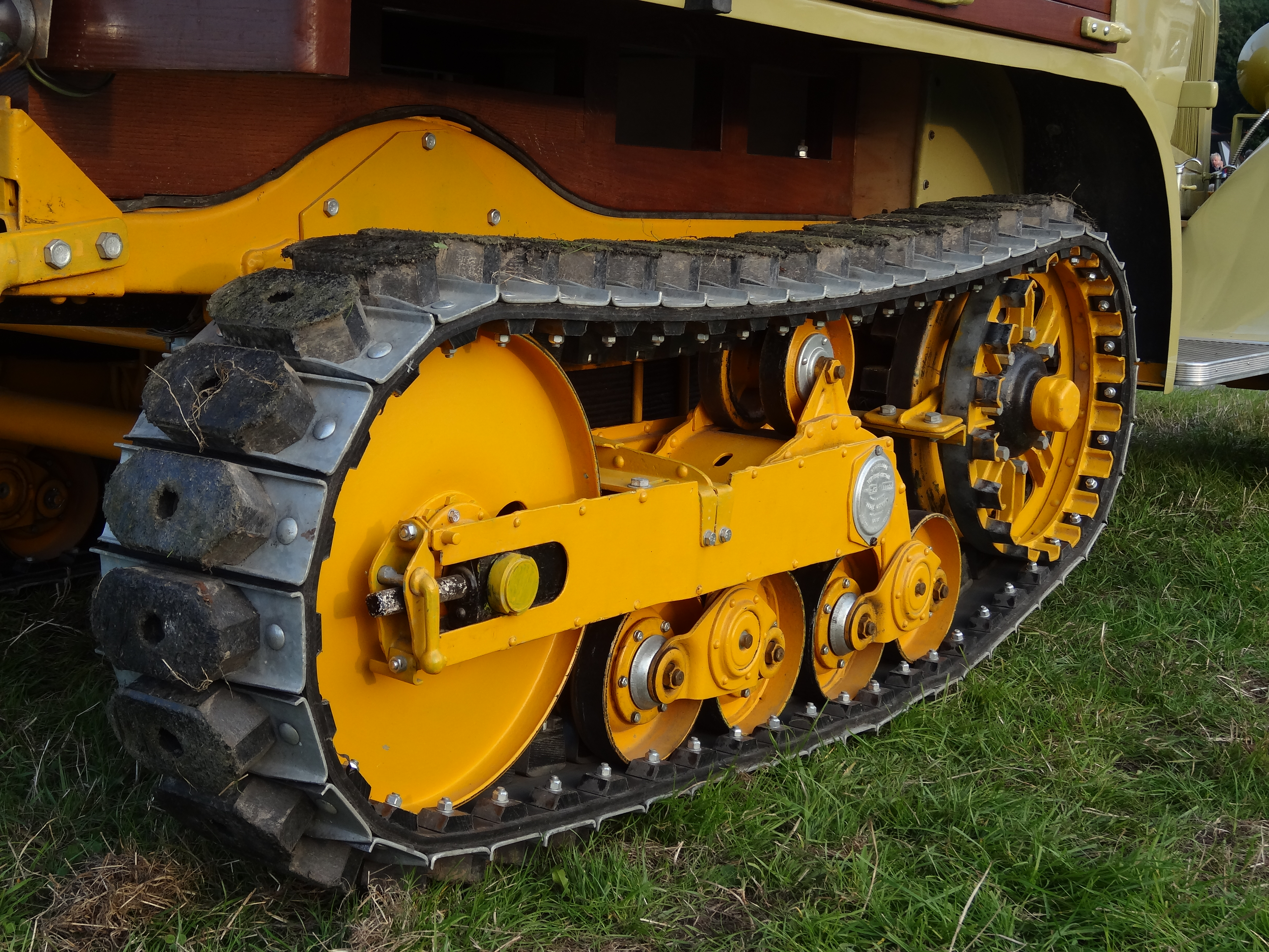 Track system of a 1933 C4 based Citroën P17 C Kégresse.Picture shot at the 2012 International Citroën Car Clubs Rally in Harrogate, North Yorkshire.